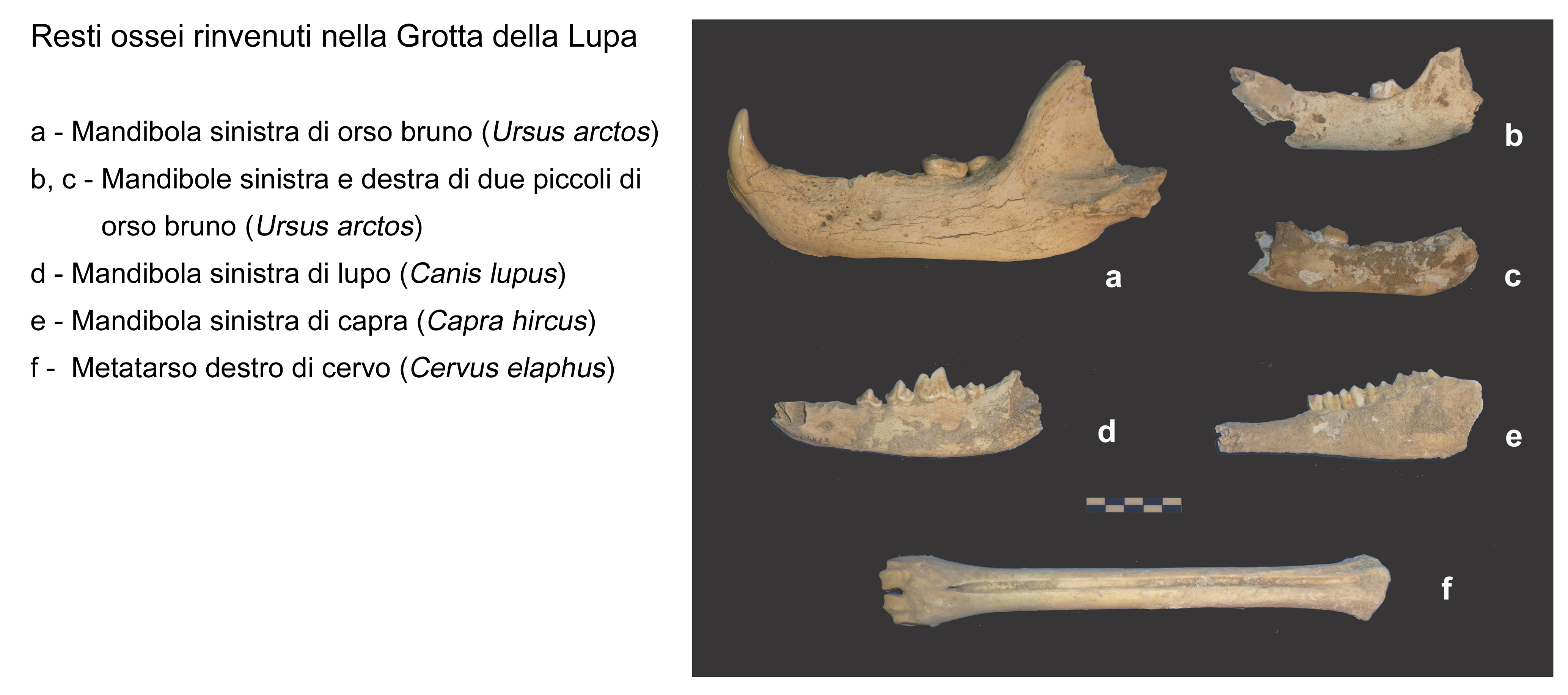 Aggiornamento a seguito di nuovi esami